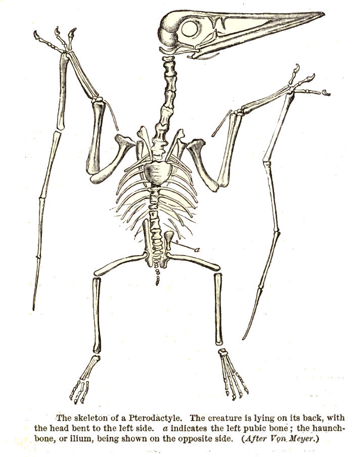 Skeleton of a Pterodactyl